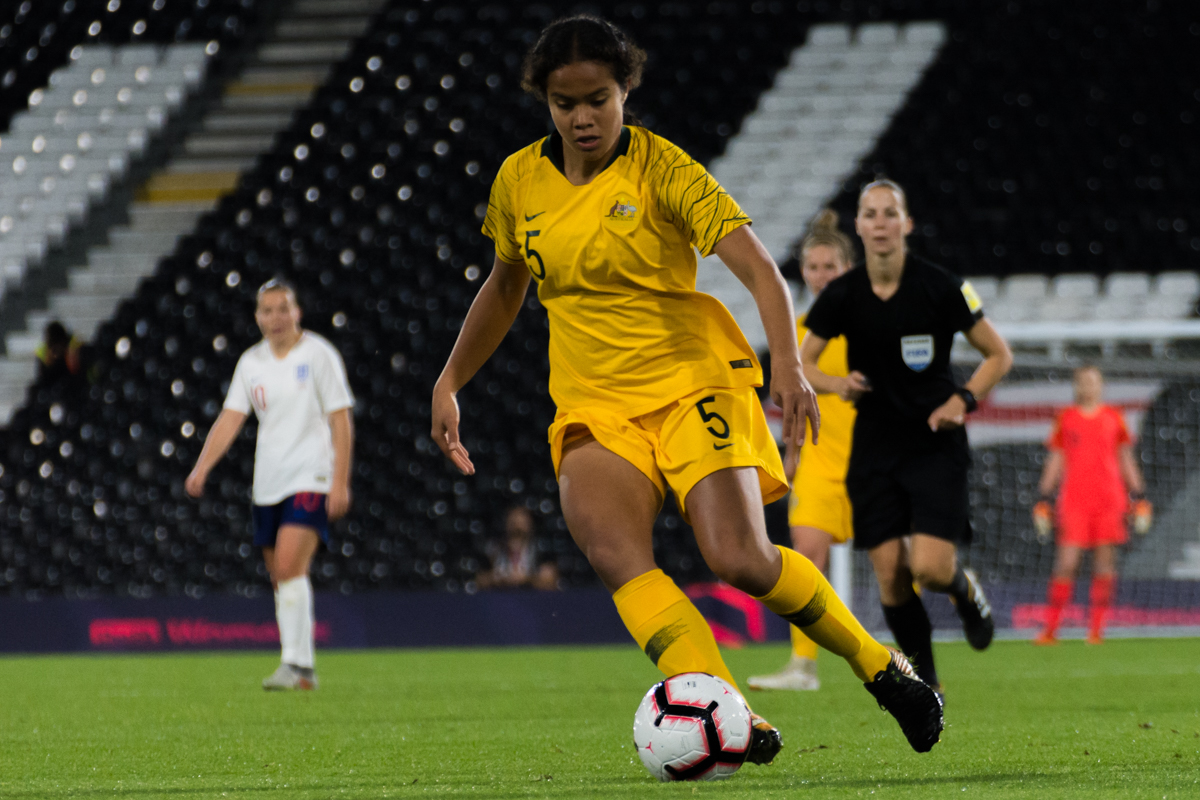 Mary Fowler vs England on 9 October 2018